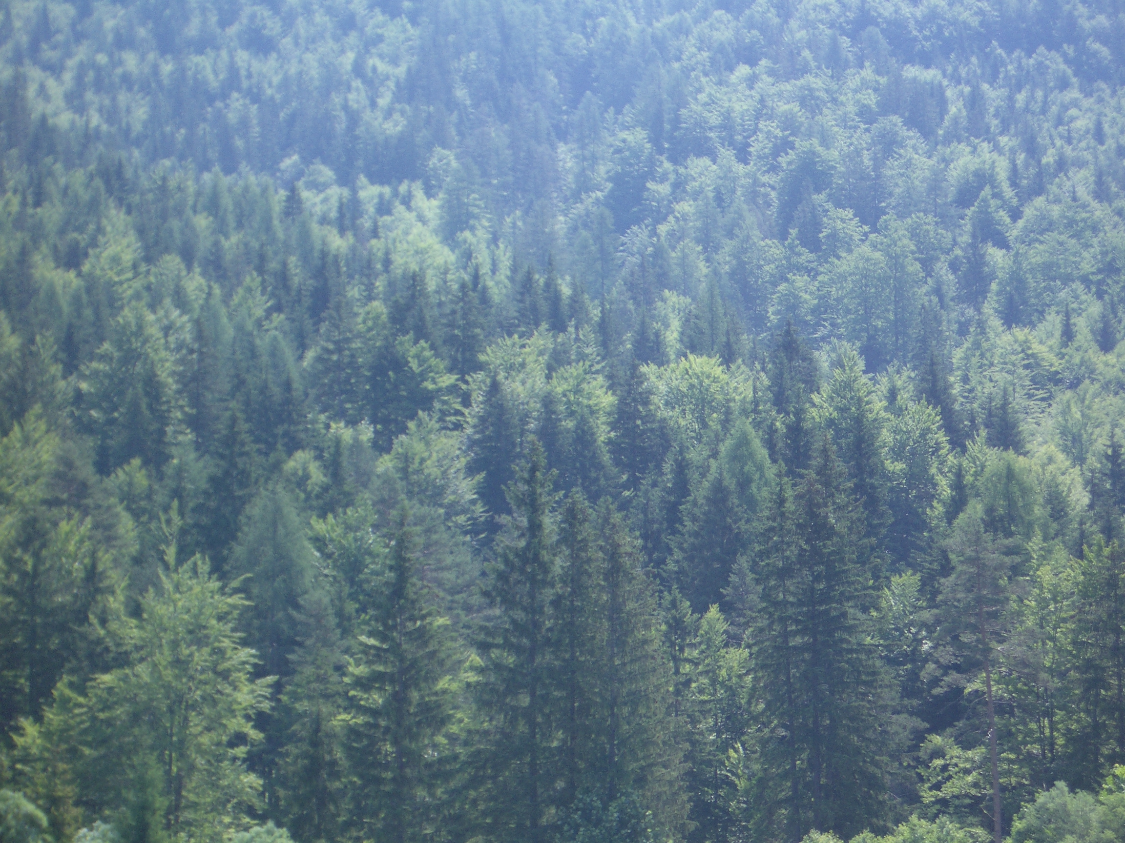 Slovenian wide angle shots uploaded in bulk. All taken near Kranjska Gora, Julian Alps in Summer 2004.